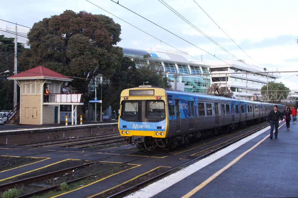 Comeng (train) at Flemington Racecourse railway station, Melbourne. The station open for passengers disrupted due to the Regional Rail Link trackworks on the Sydenham Line during July 2011: [1]